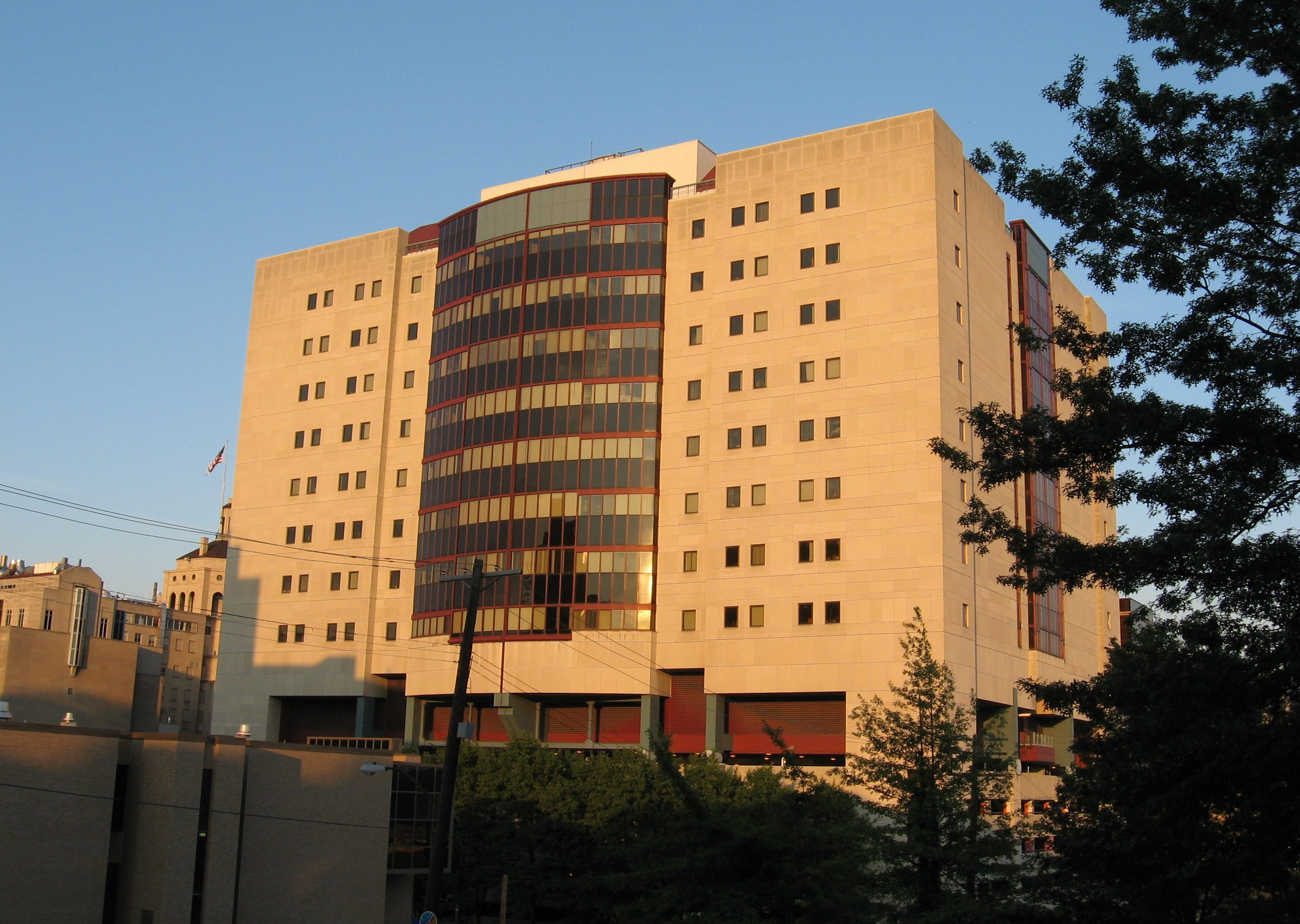 The Thomas E. Starzl Biomedical Science Tower, aka the Biomedical Science Tower 1 (photo title is wrong) at University of Pittsburgh40°26′31″N 79°57′43.2″W / 40.44194°N 79.962°W